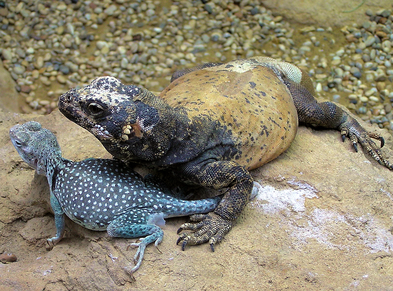 Collared Lizard on left (Crotaphytus collaris) and Common Chuckwallah on right (Sauromalus ater), at Bristol Zoo, England.